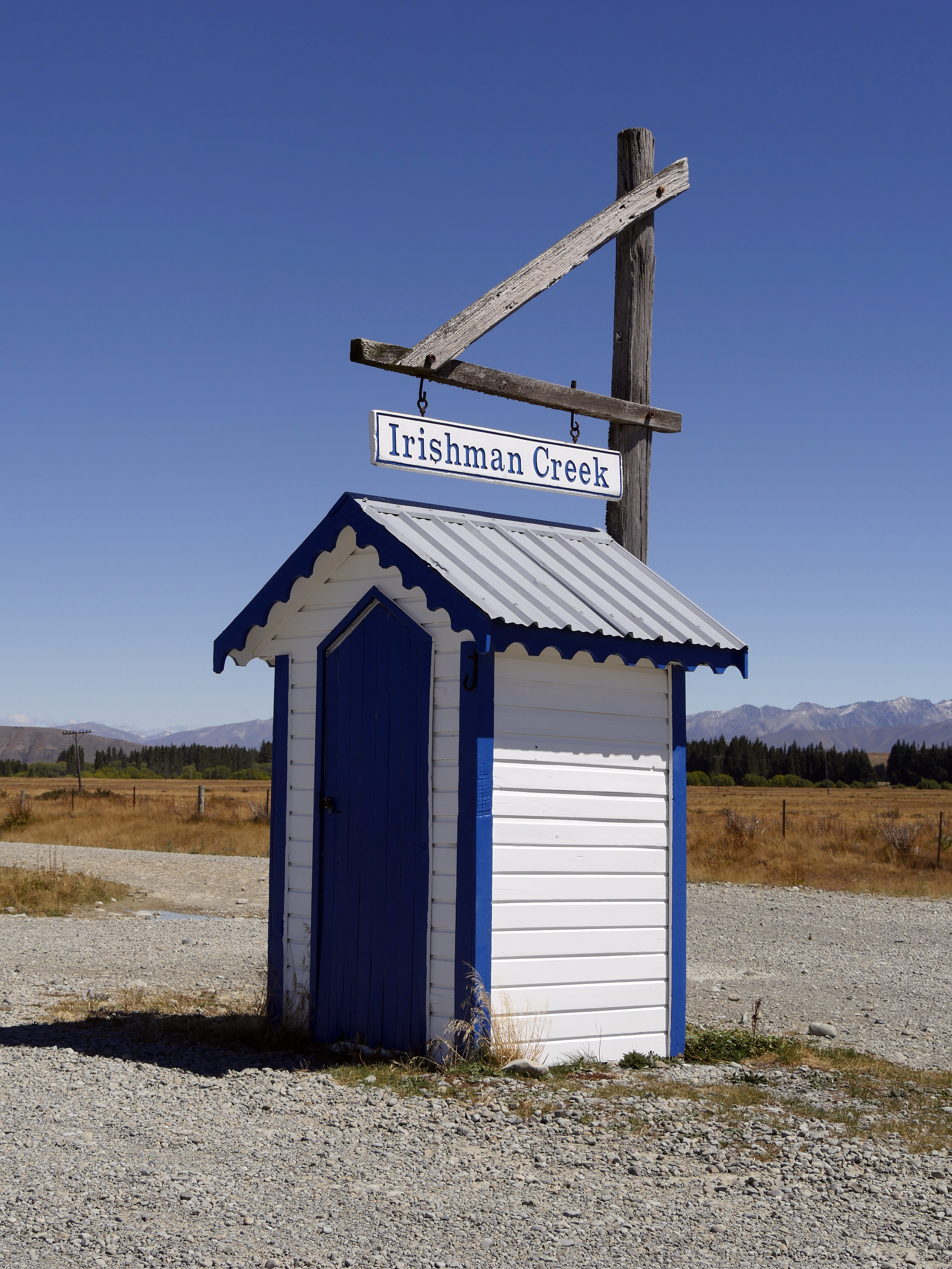 Irishman Creek, Post Box, „in the middle of nowhere“, Mackenzie District, Caterbury Region, South Island, New Zealand (Post Box is located at State Highway 8, 1 km north of Tekapo Canal)